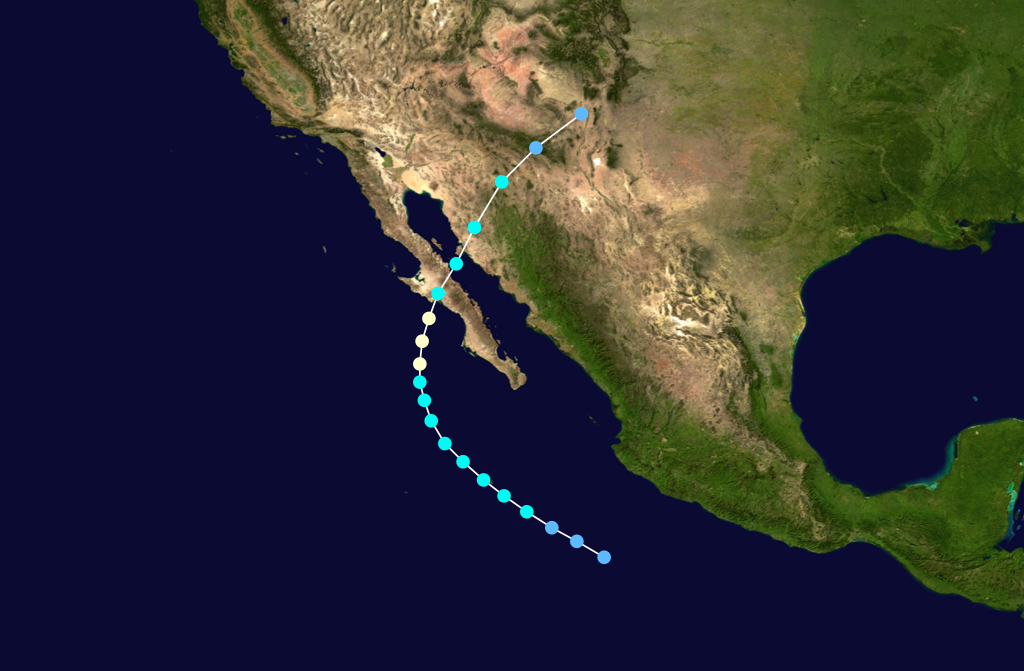 Hurricane Lester (1992) track. Uses the color scheme from the Saffir-Simpson Hurricane Scale.